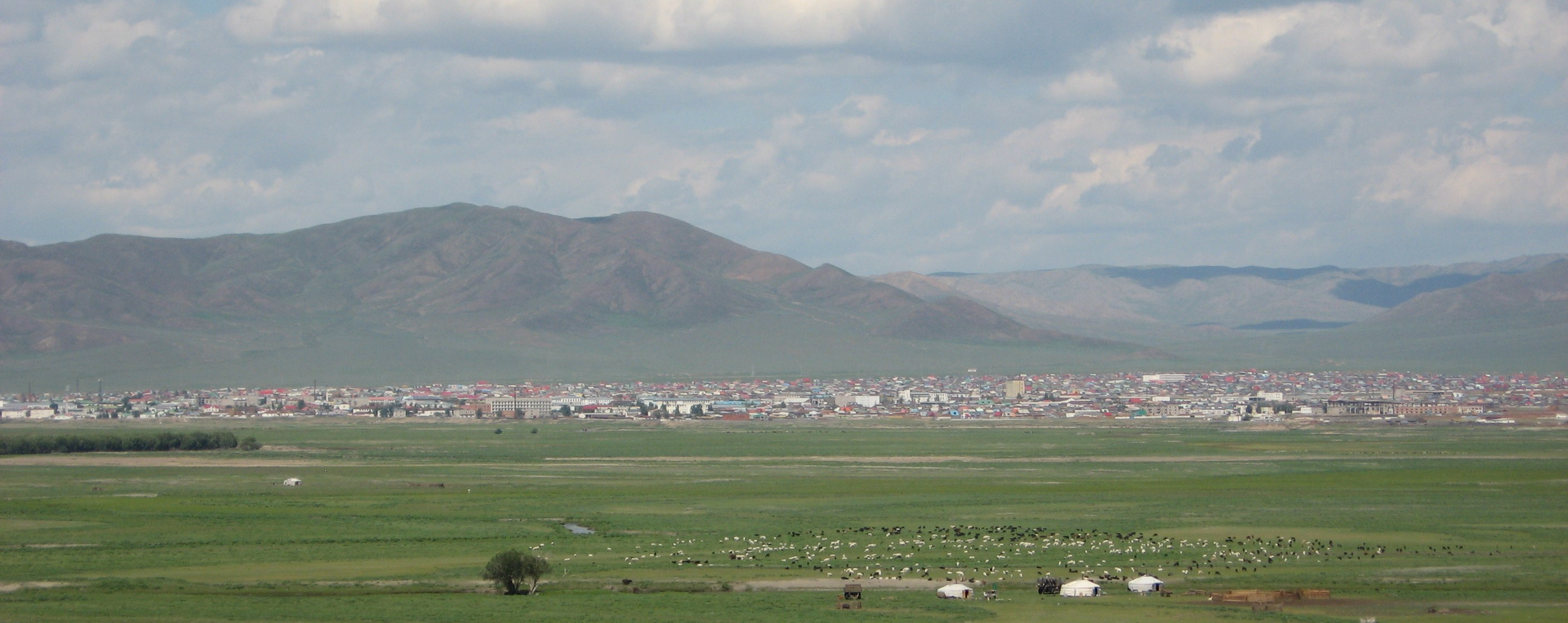 view of Mörön, Khövsgöl aimag, Mongolia, from the south